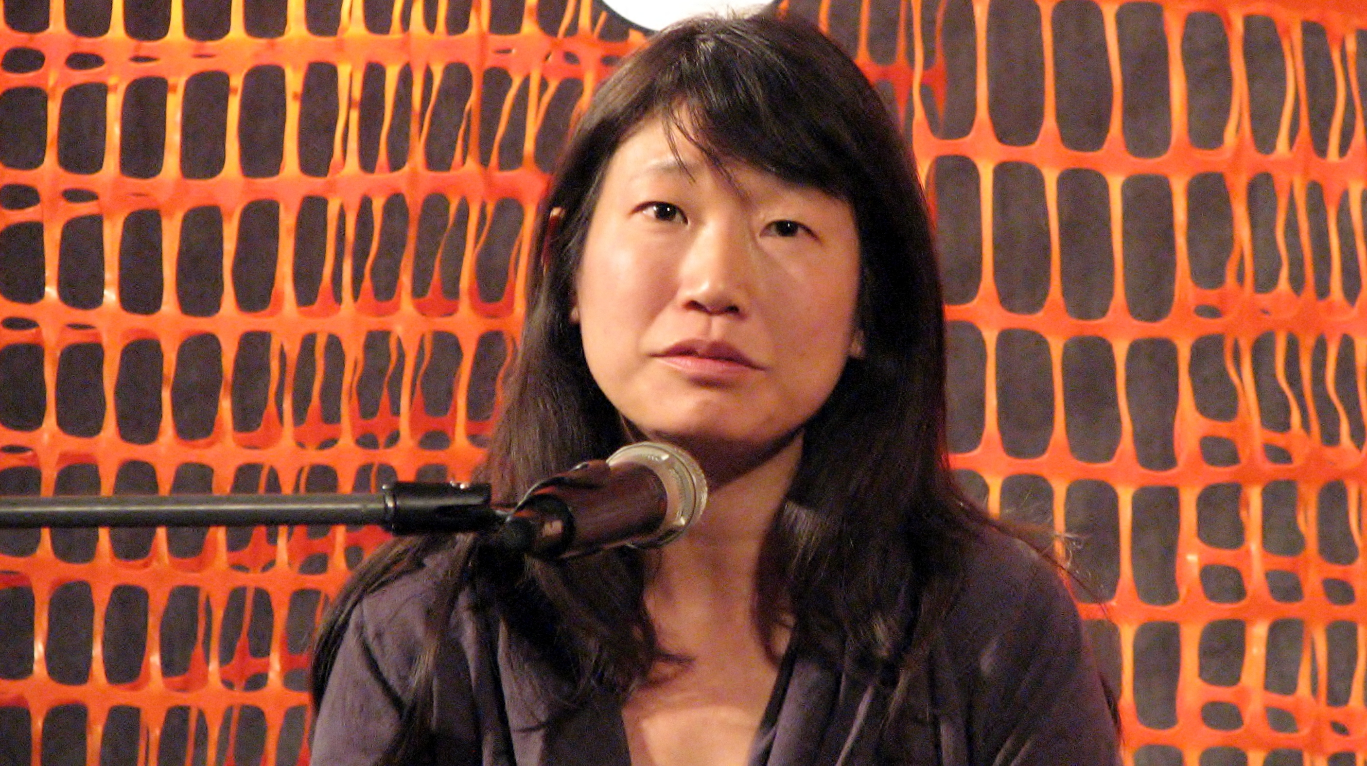 Madeleine Thien performing in HeadRead festival